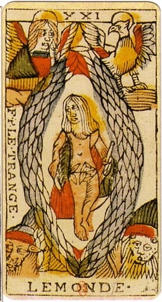 An original card from the tarot deck of Jean Dodal of Lyon, a classic Tarot of Marseilles deck which dates from 1701-1715.